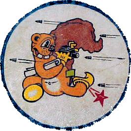 Emblem of the 2d Photographic Reconnaissance Squadron (World War II)